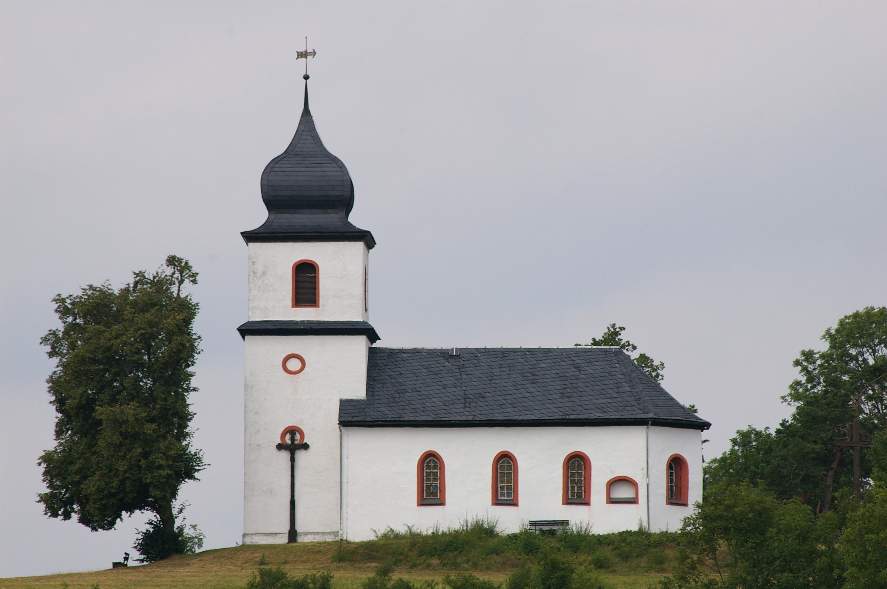 The chapel St. Clara in the village Heinersgrün, view from the castle.